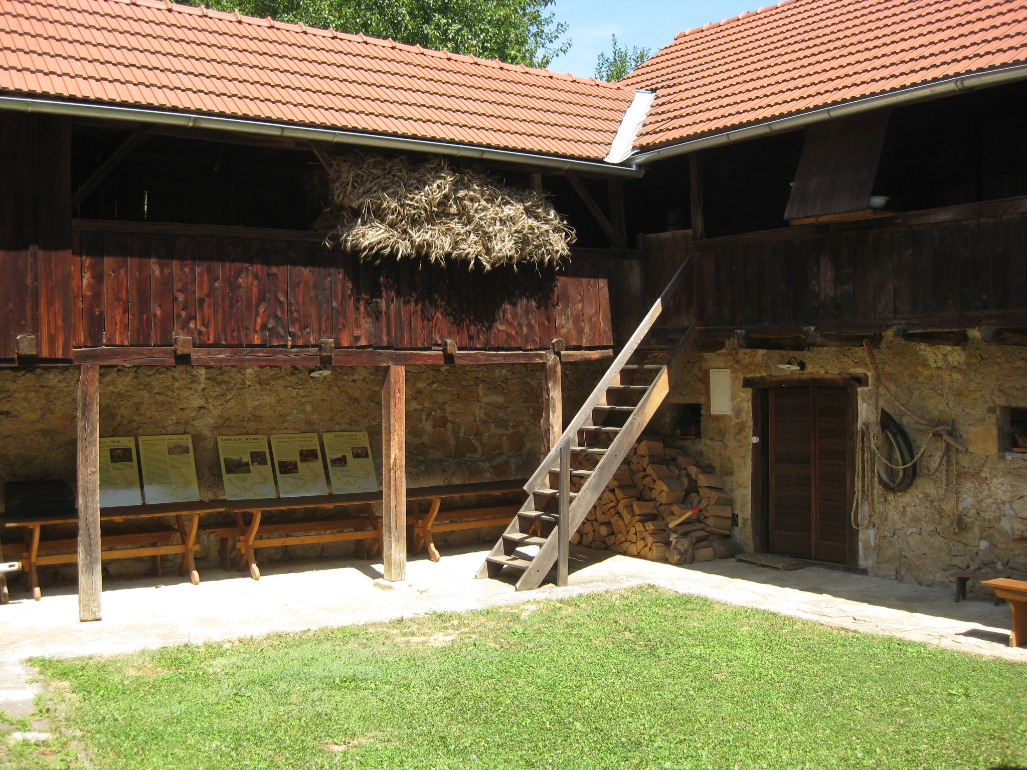 Šokčev dvor in Žuniči village, Slovenia